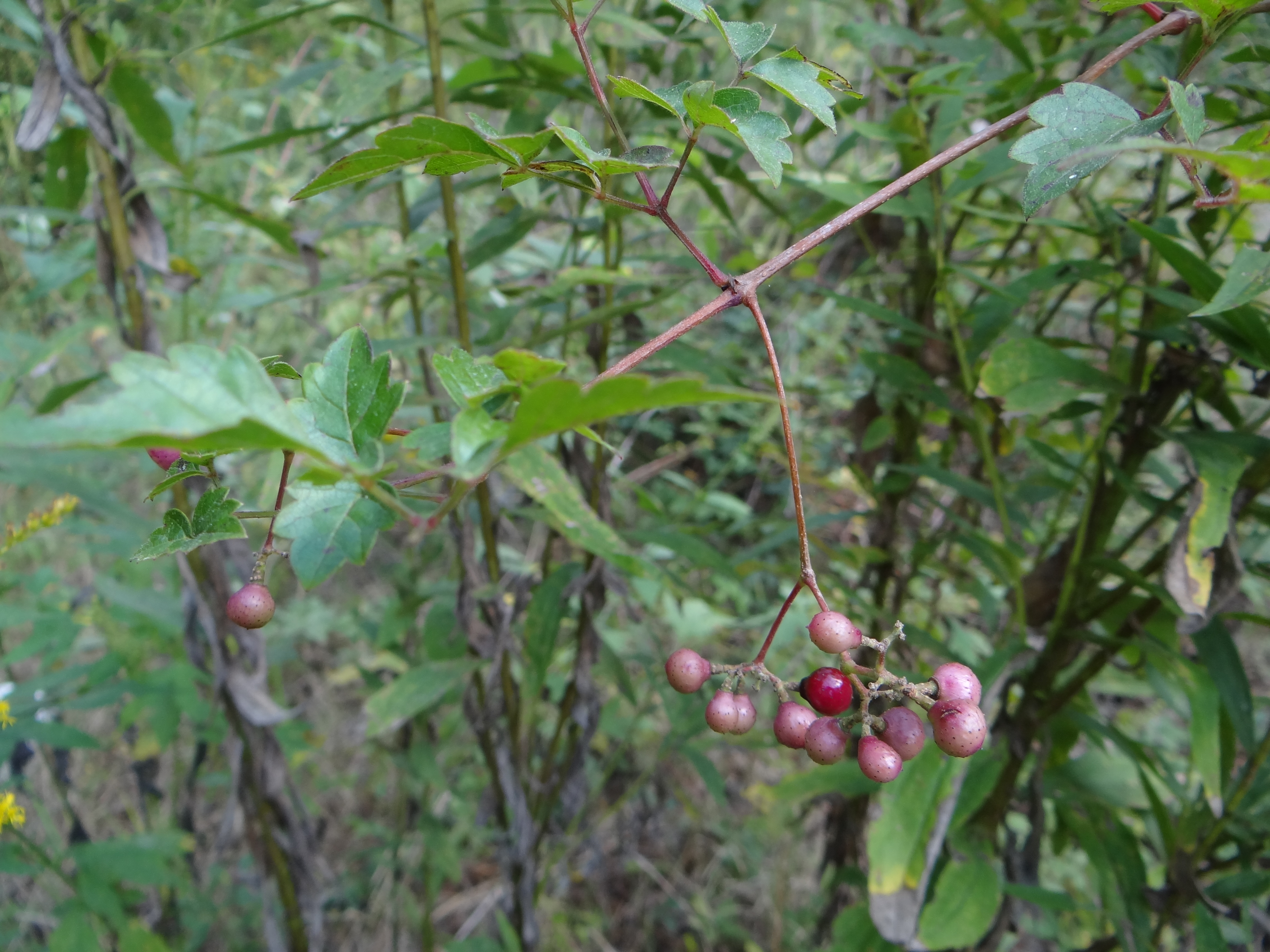 Pepper vine with fruit